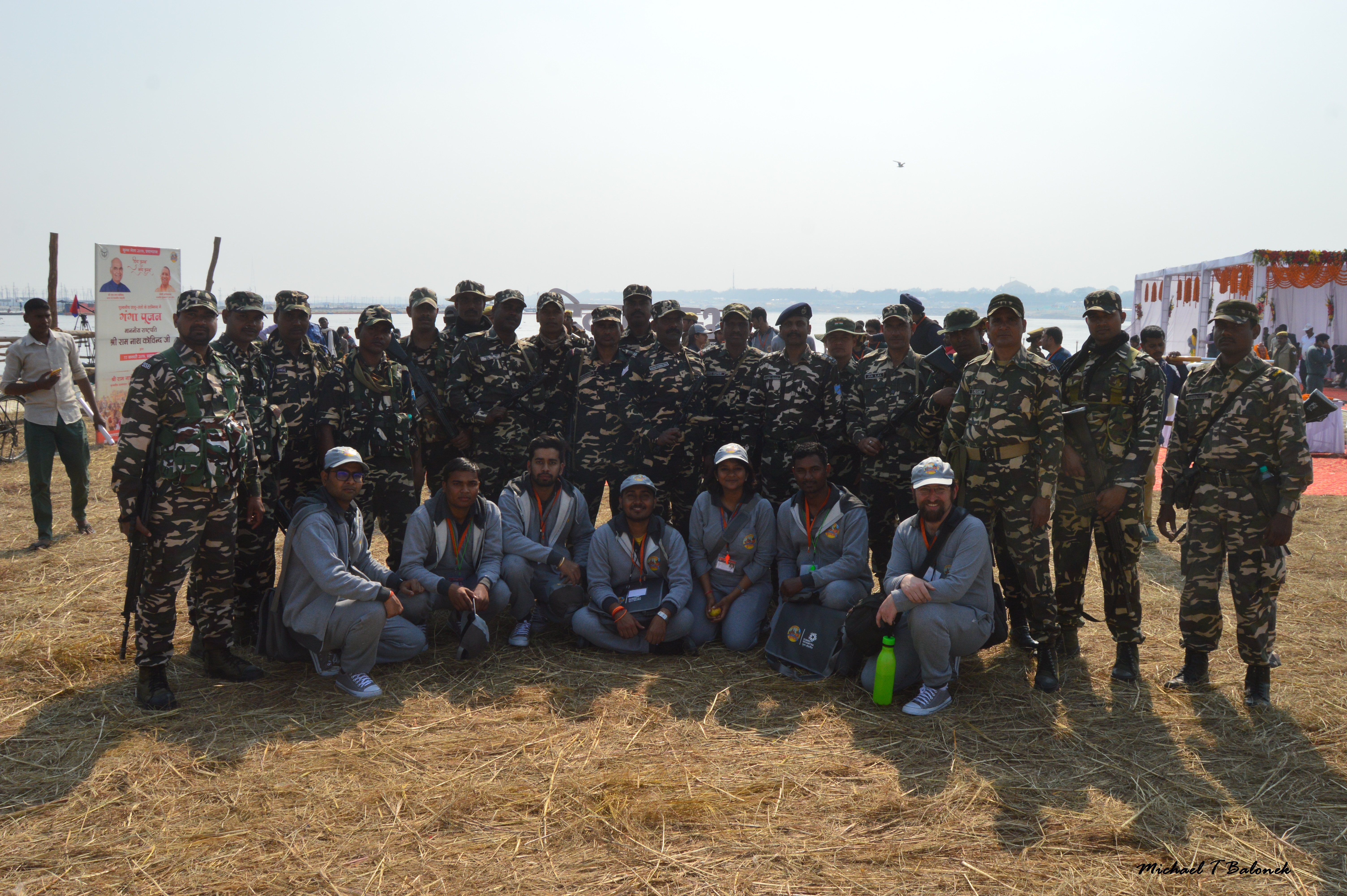 Students from Govind Ballabh Pant Social Science Institute (Allahabad/Prayagraj, UP) were among the thousands of volunteers at the 2019 Kumbh Mela. Seen here after helping the military and the police with crowd control as the President of India visited the Mela This photo has been taken in the country: India